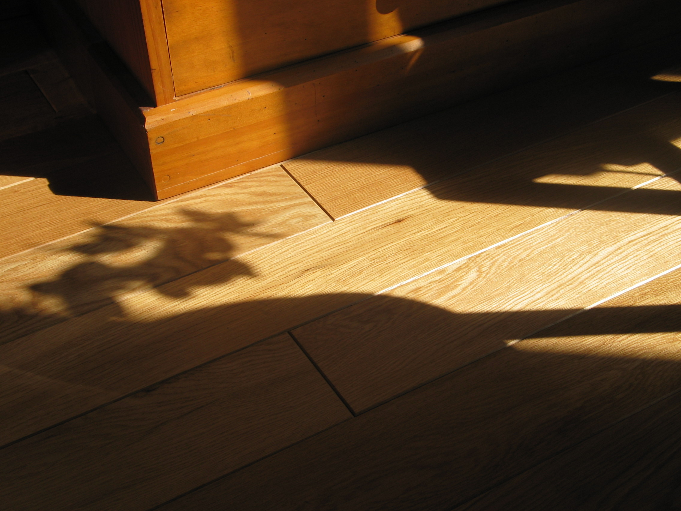 Wooden flooring